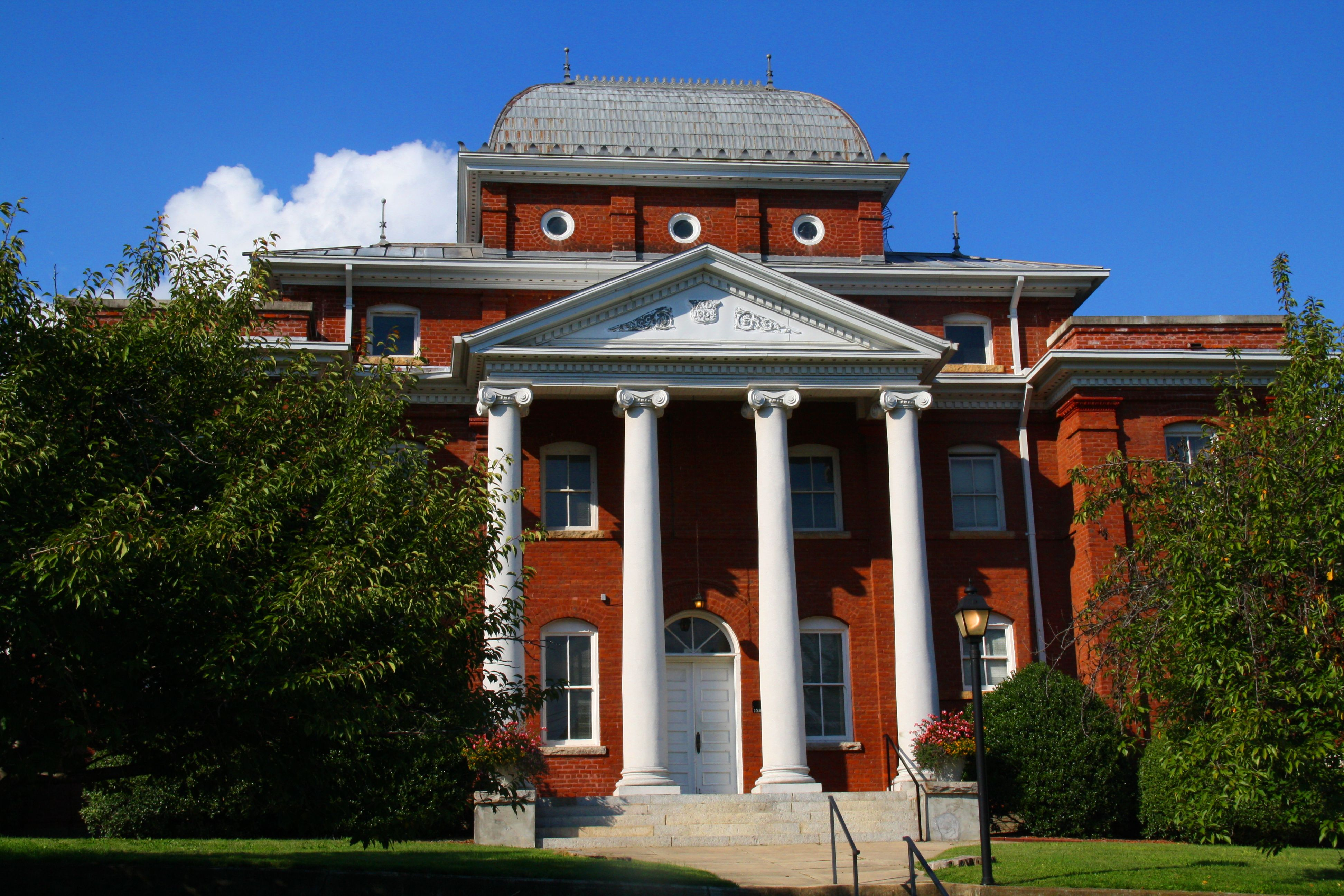 The historic district of Danbury contains many fine old buildings, of which this one on Main Street is probably the most prominent.